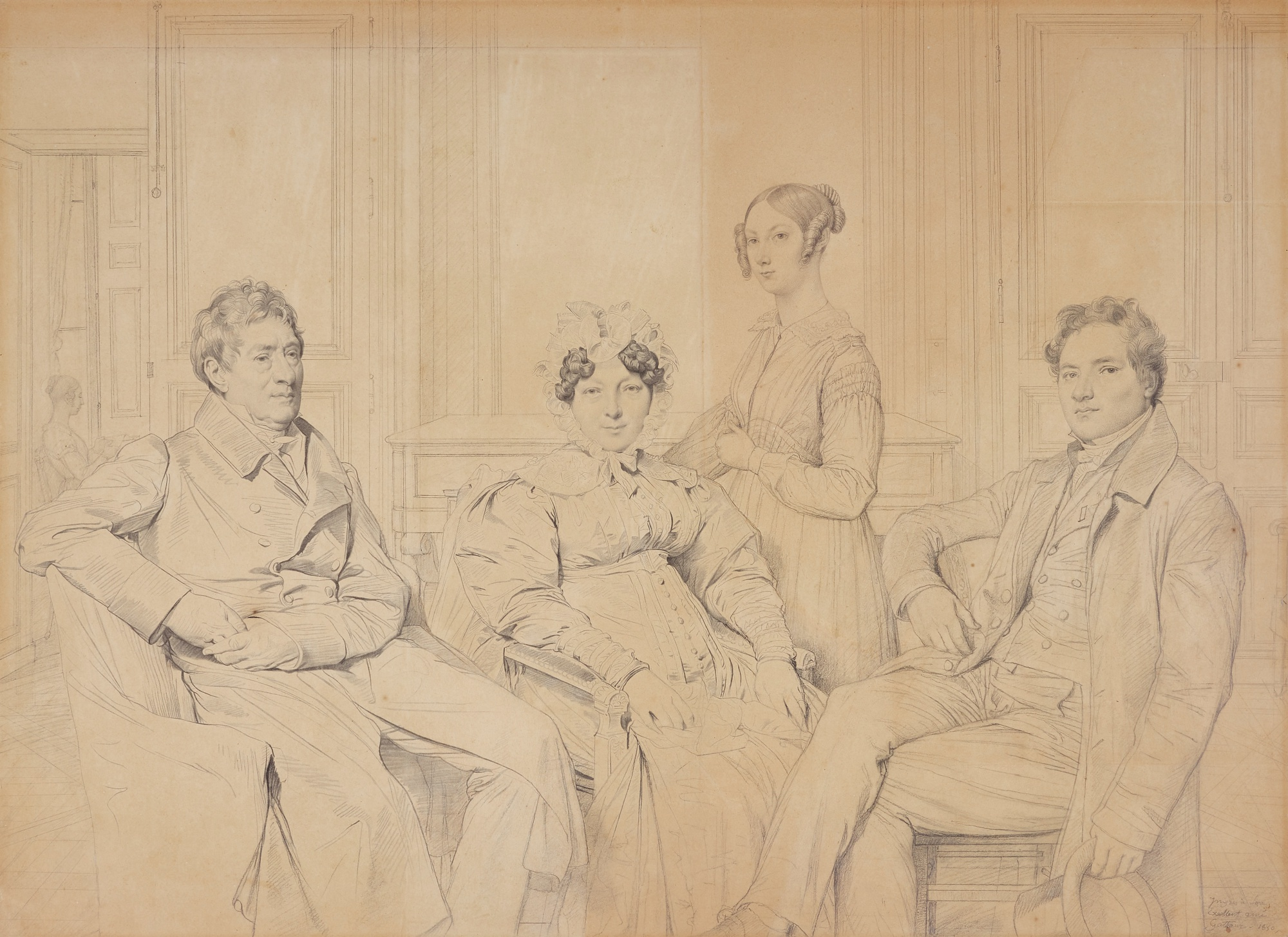 The Gatteaux Family pencil and reworked lithograph on several sheets of paper, cut out and laid down 44.1 by 60.7cm inscribed b.r: Ingres à son / Excellent ami / Gatteaux - 1850